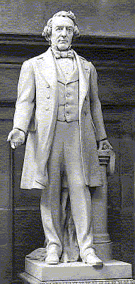 Statue of Henry Mower Rice of Minnesota at Statuary Hall, U.S. Capitol